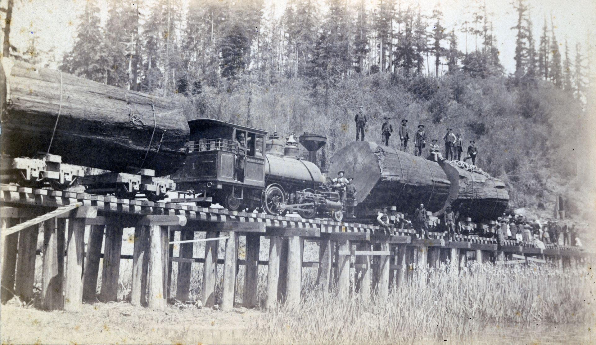 Albion Lumber Company's redwood logging railroad and their Baldwin 2-4-2T No. 1 'Albion' ca. 1890